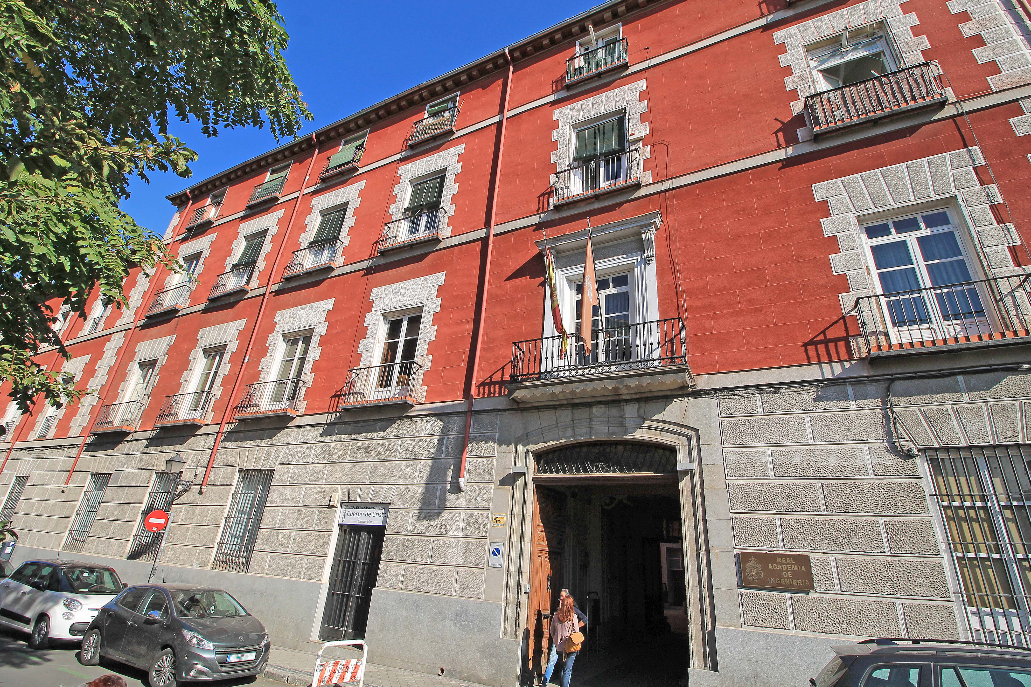 Façade of the former mansion of the marquis of Villafranca in Madrid (Spain).